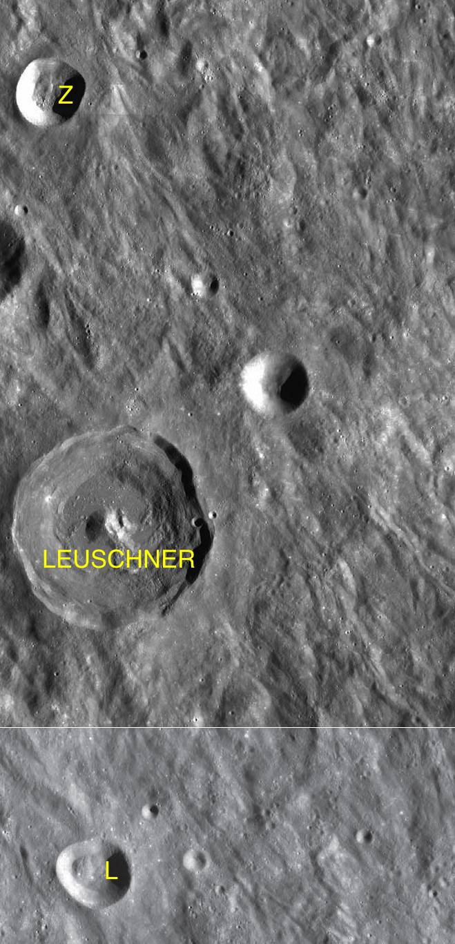 Parts of the charts LAC-72, LAC-90 used for the presentation